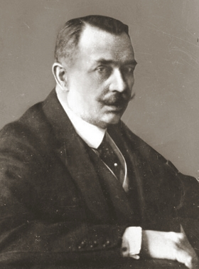 Maurycy Zamoyski, Polish aristocrat and politician, Minister of Foreign Affairs of Poland 1923